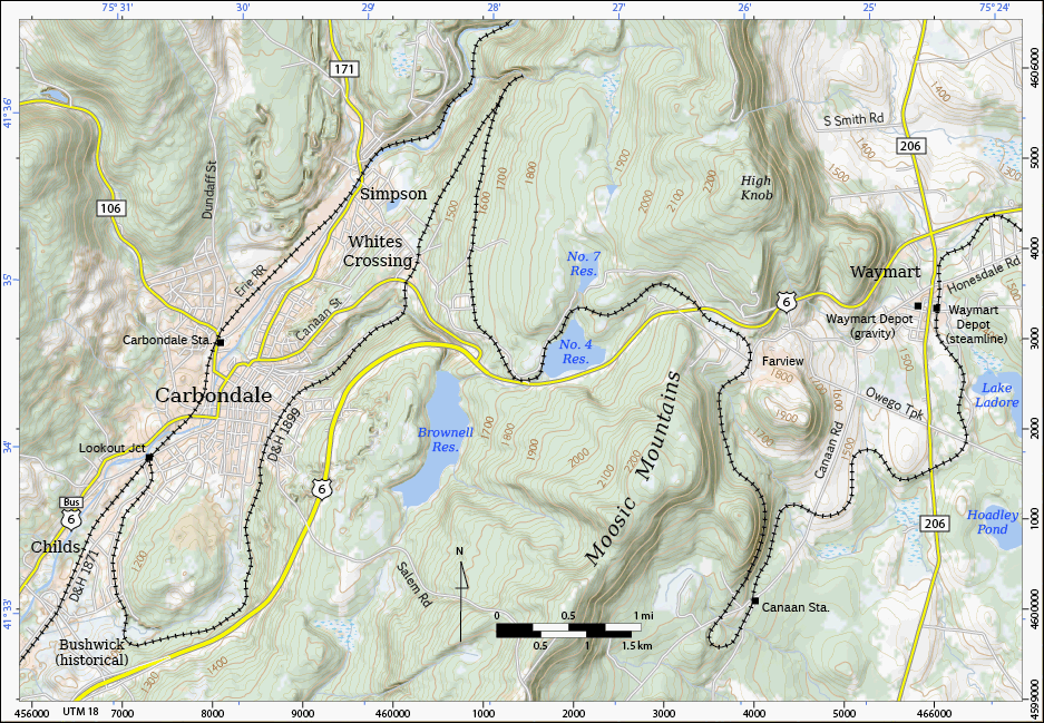 Map of the Delaware and Hudson gravity railroad, 1899 conversion to steam, Carbondale to Waymart.